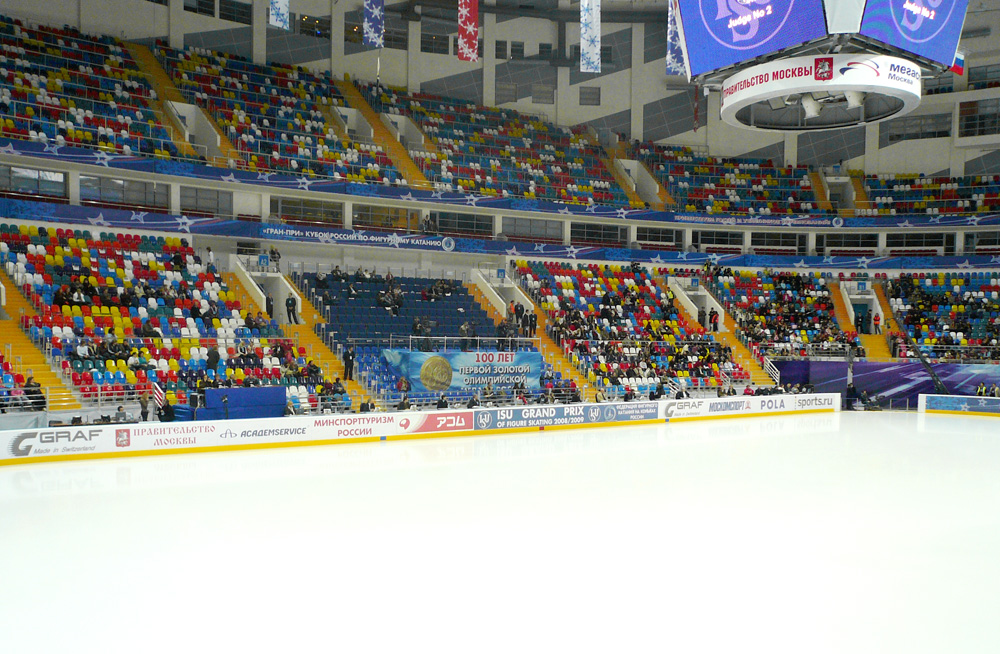 Cup of Russia, held in Khodynka Arena in 2008.